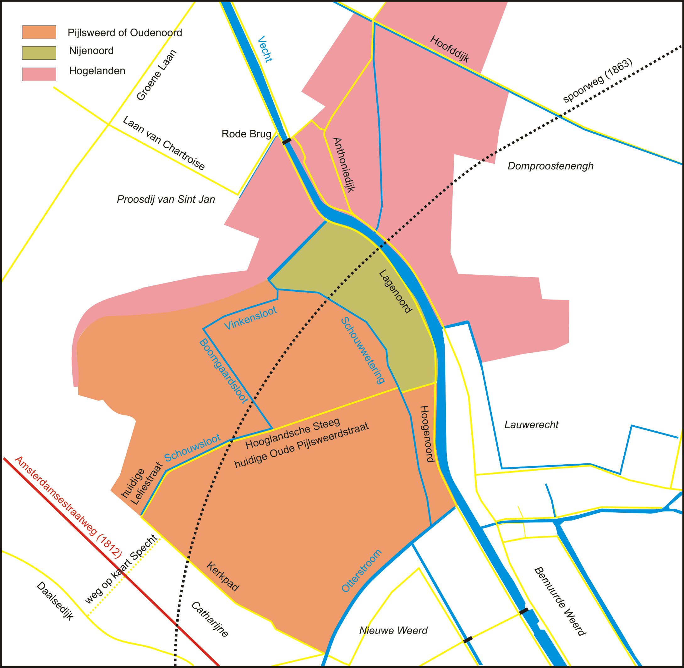 historical map of Pijlsweeerd, Nijenoord and Hogelanden in the province of Utrecht